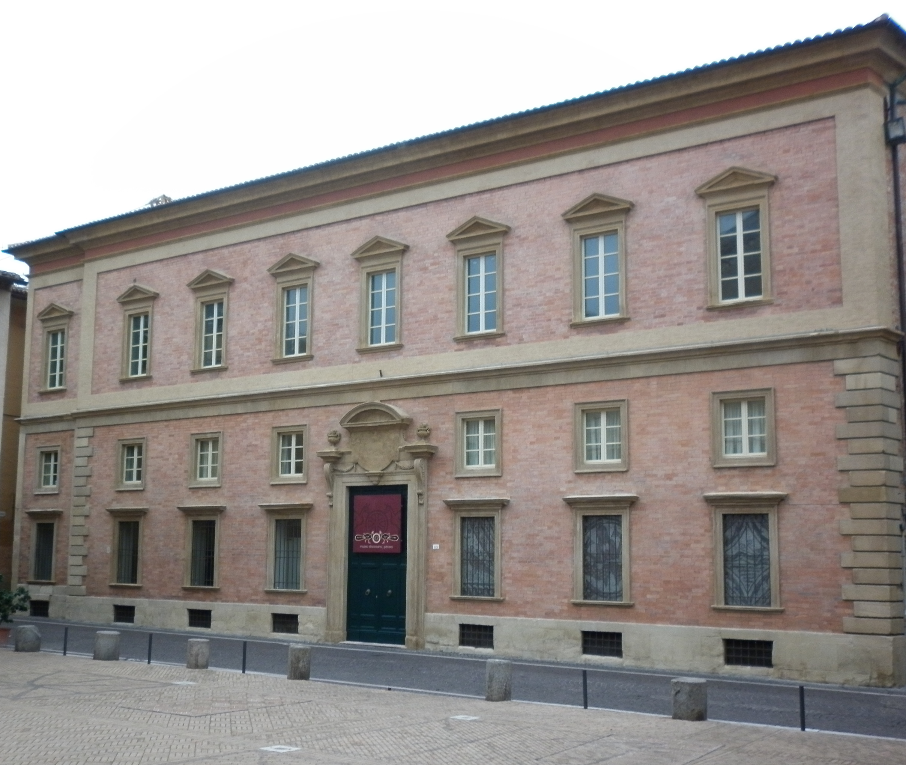 Palazzo Lazzarini